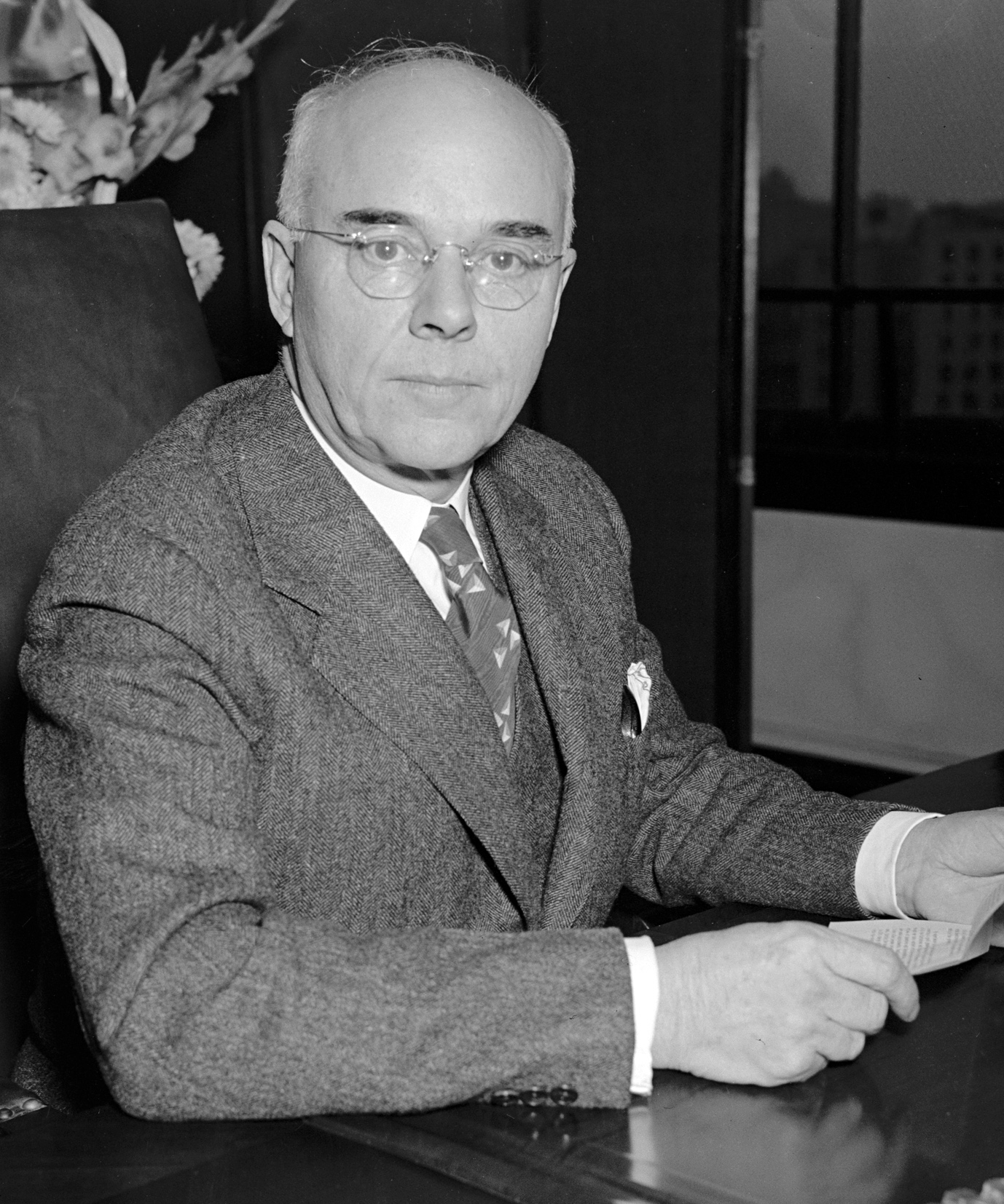 Edward C. Eicher, US Representative from Iowa